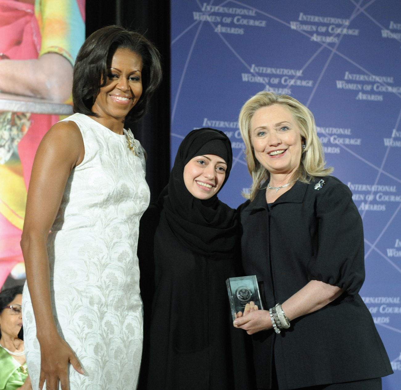 U.S. Secretary of State Hillary Rodham Clinton, right; and First Lady Michelle Obama, left; pose for a photo with 2012 International Women of Courage (IWOC) Award Winner Samar Badawi of Saudi Arabia, at the U.S. Department of State in Washington, D.C., on March 8, 2012. [State Department photo/ Public Domain]